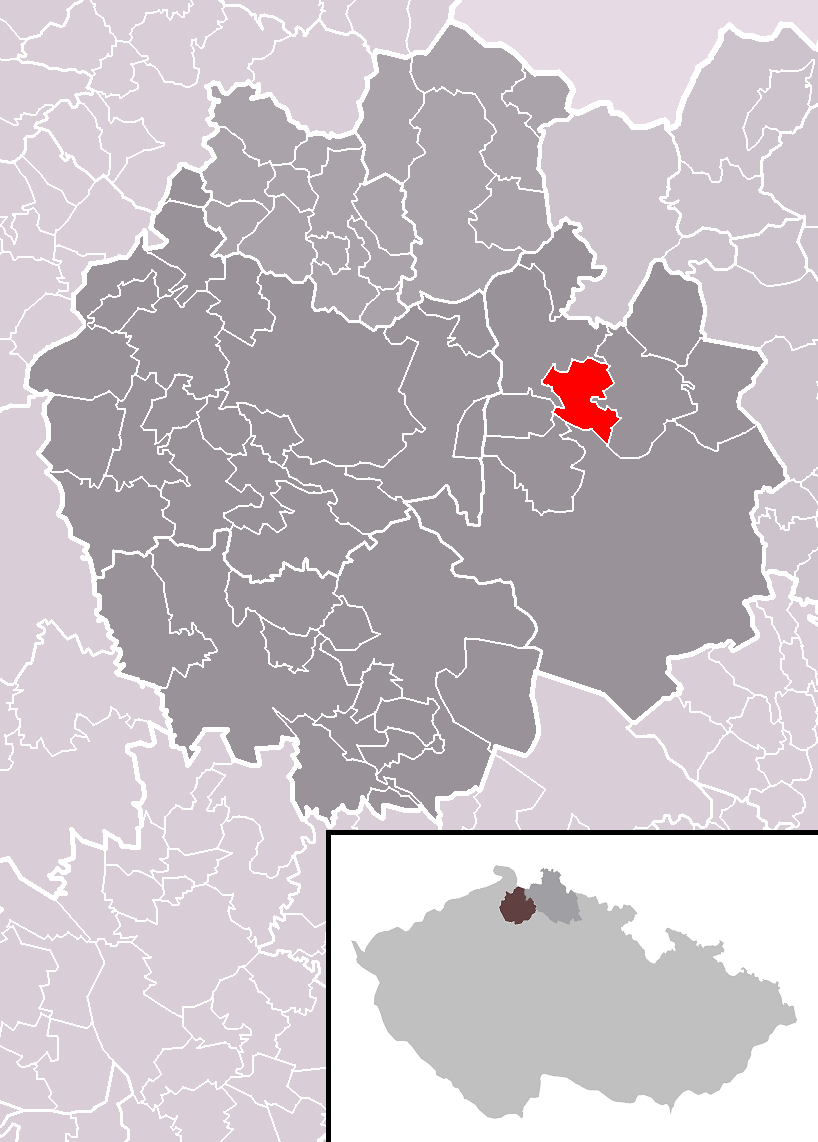 Location of Noviny pod Ralskem municipality within Česká Lípa District and administrative area of Česká Lípa as a Municipality with Extended Competence.